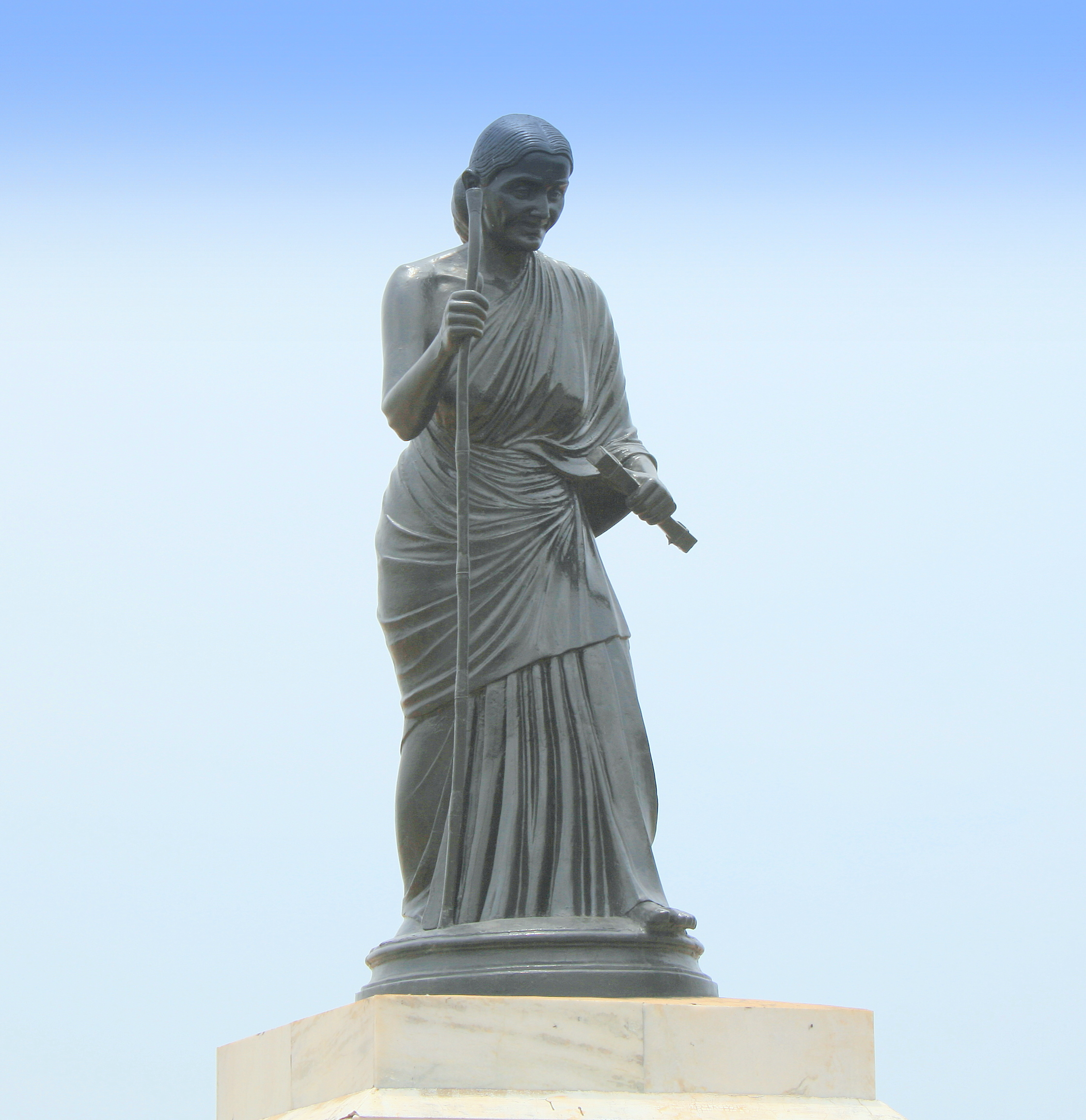 Avvaiyar statue on Marina Beach, Chennai, Tamil Nadu, India.